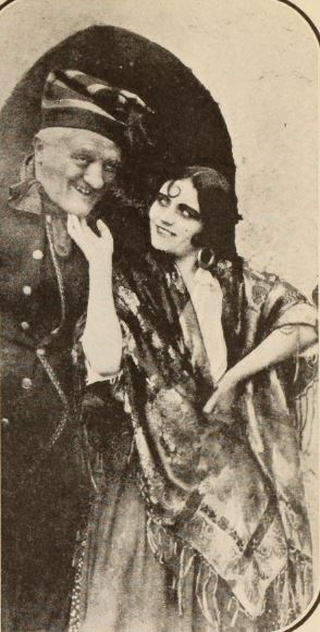 Pola Negri as Carmen, in Gypsy Blood (American version of German film Carmen (1918)), on page 53 of the October 1921 Photoplay.